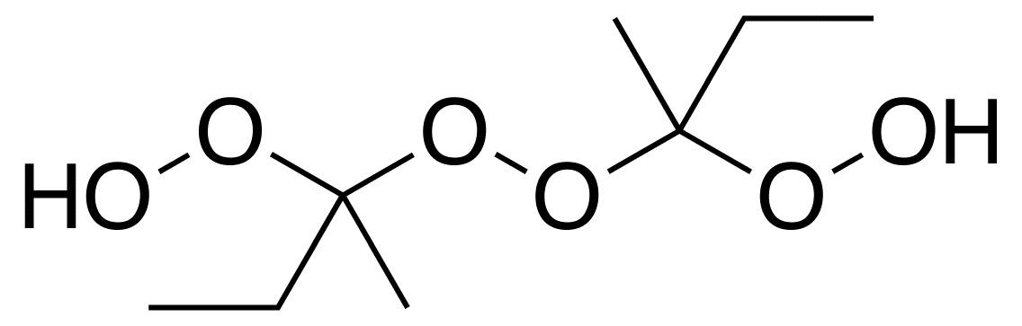 Skeletal structure of methyl ethyl ketone peroxide